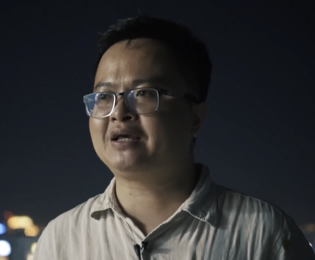 Anon Nampha Arnon Nampa